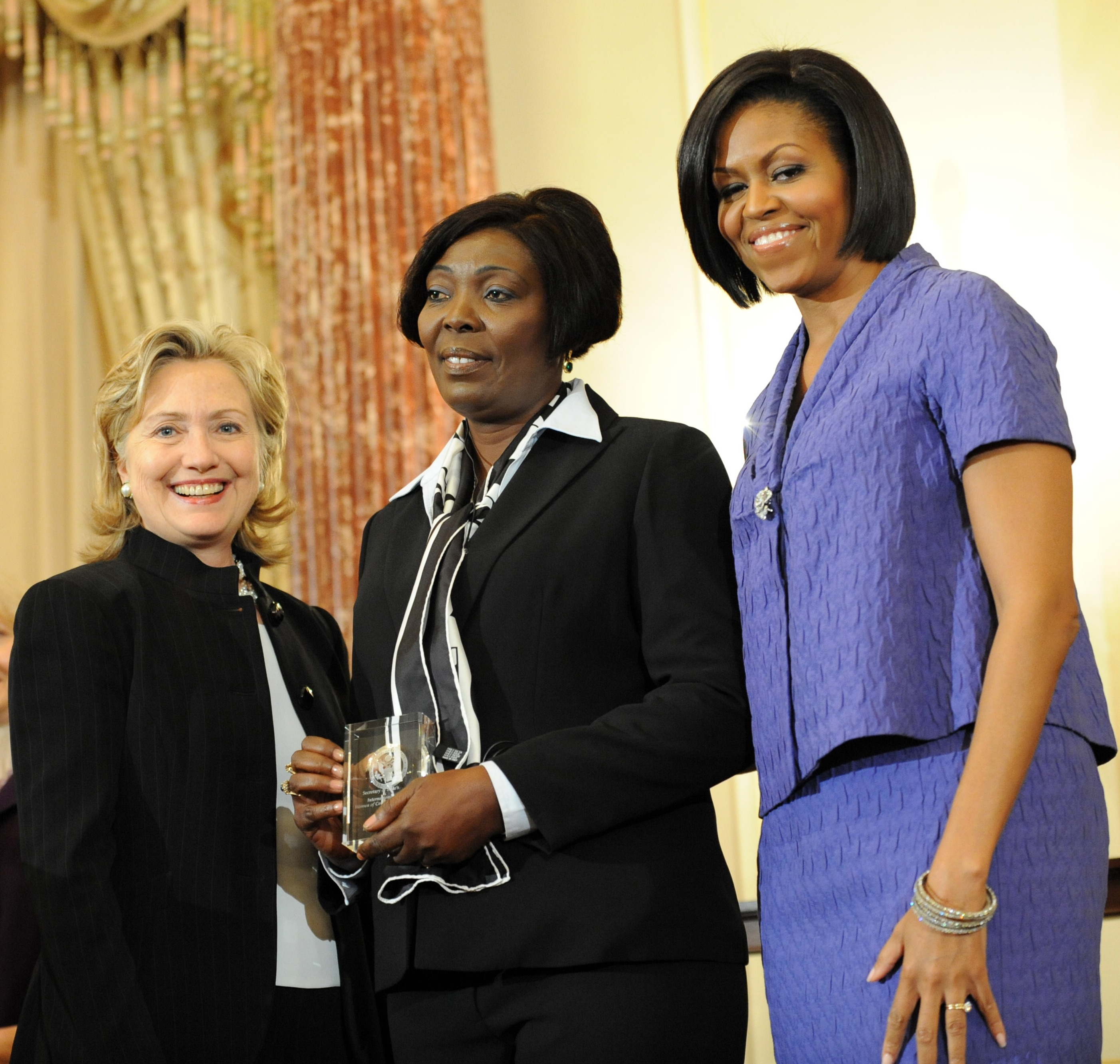 U.S. Secretary of State Hillary Clinton and First Lady Michelle Obama stand with Honoree Sonia Pierre of the Dominican Republic at the 2010 International Women of Courage Awards at the U.S. Department of State, Washington, D.C. March 10, 2010.